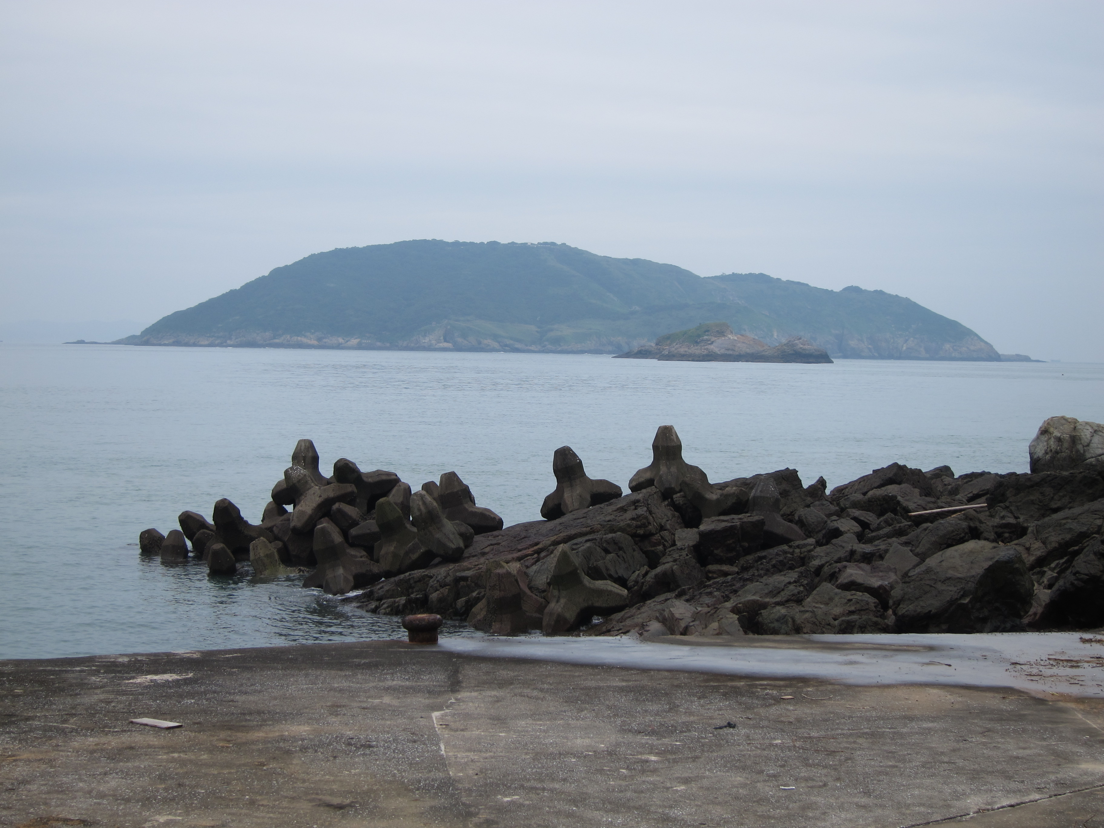 Gaodeng Island, Beigan, Lienchiang, Fukien (Fujian), Taiwan (ROC)